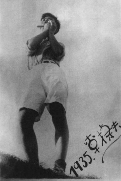 This is a photo of Li Jiefu, Li is a famous composer of China. The Photo was taken at 1935, according to the copyright law in China, it has been in public domain.